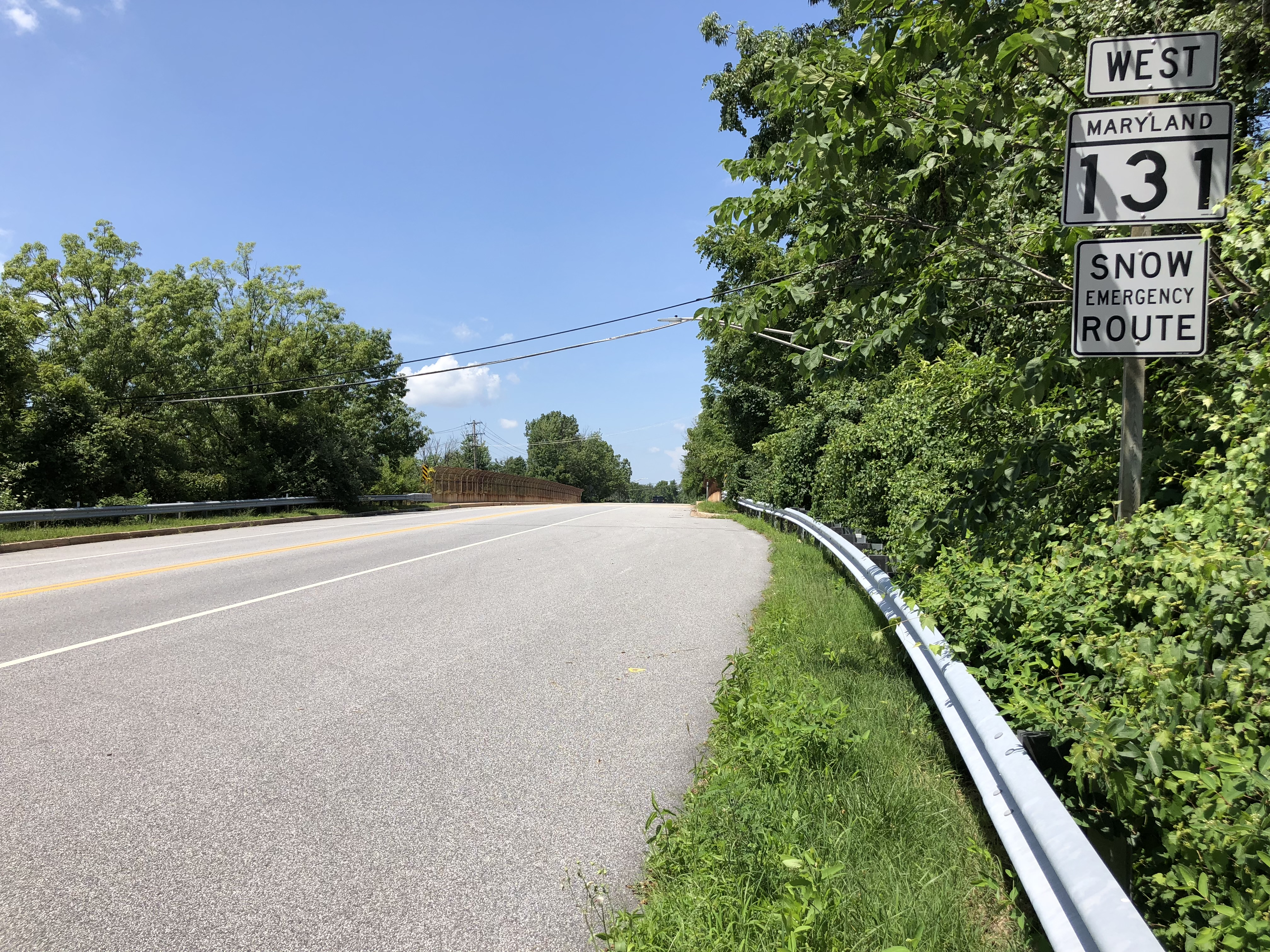 View west along Maryland State Route 131 (West Seminary Avenue) just east of Interstate 83 (Baltimore-Harrisburg Expressway) in Lutherville, Baltimore County, Maryland